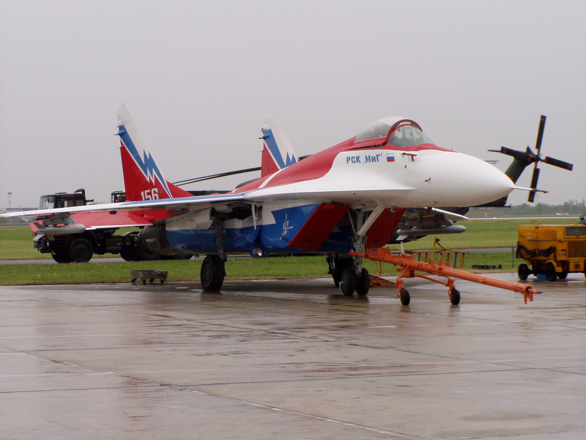 Mikoyan MiG-29M-OVT, parked on Berlin Air Show 2006 after a demonstration flight using thrust vectoring.